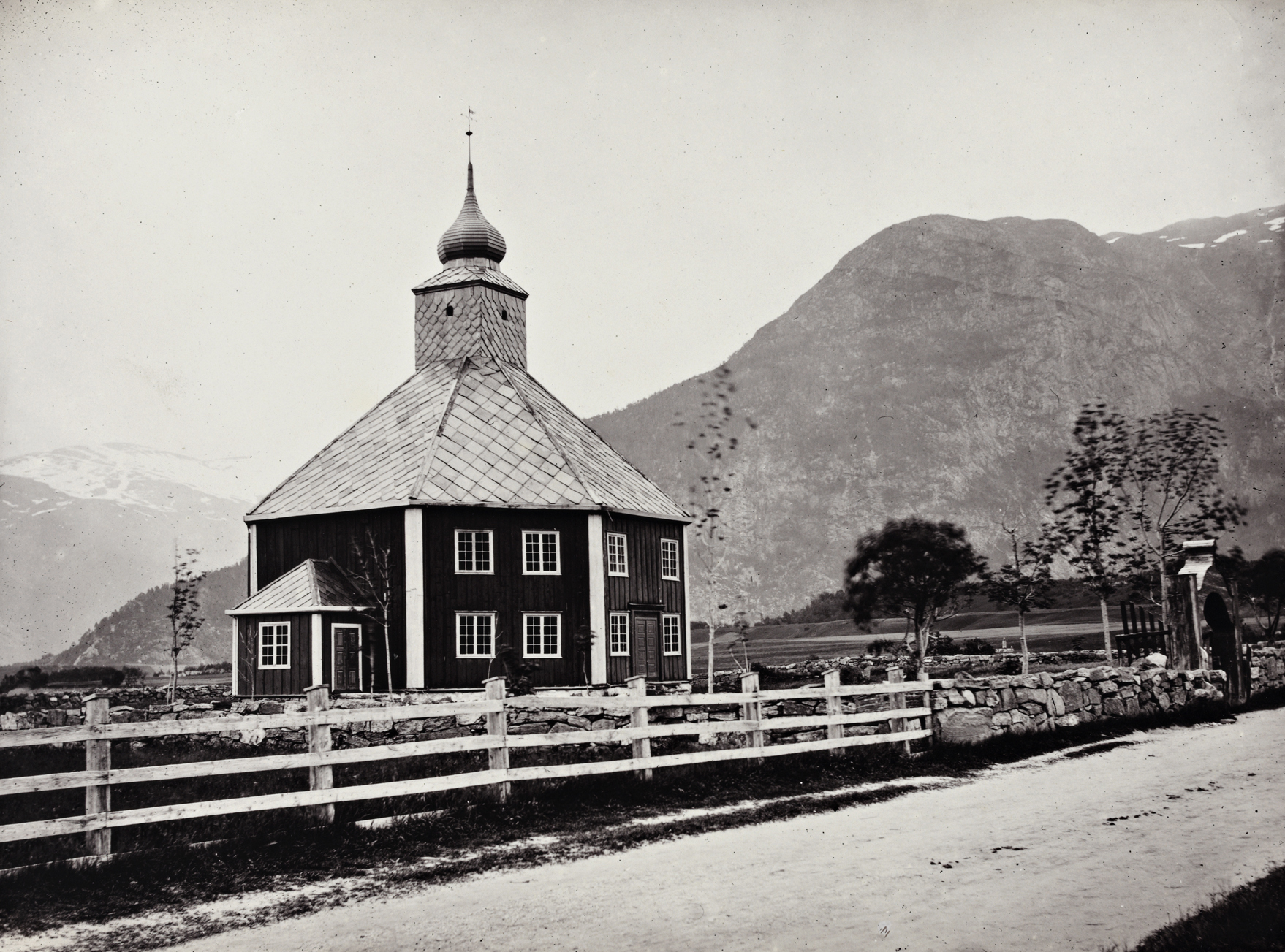 s. 28. Church Veblungsnaes ["Cruise of the "Nereid" 1869"] Tittel / Title: s. 28. Church Veblungsnaes Motiv / Motif: Albuminkopi. Grytten kirke, bygd i 1829. Dato / Date: 1869 Fotograf / Photographer: Edward Backhouse Mounsey (1840-1911) Sted / Place: Møre og Romsdal, Rauma, Veblungsnes Eier / Owner Institution: Nasjonalbiblioteket / National Library of Norway Lenke / Link: Bildesignatur / Image Number: bldsa_Alb_BH031